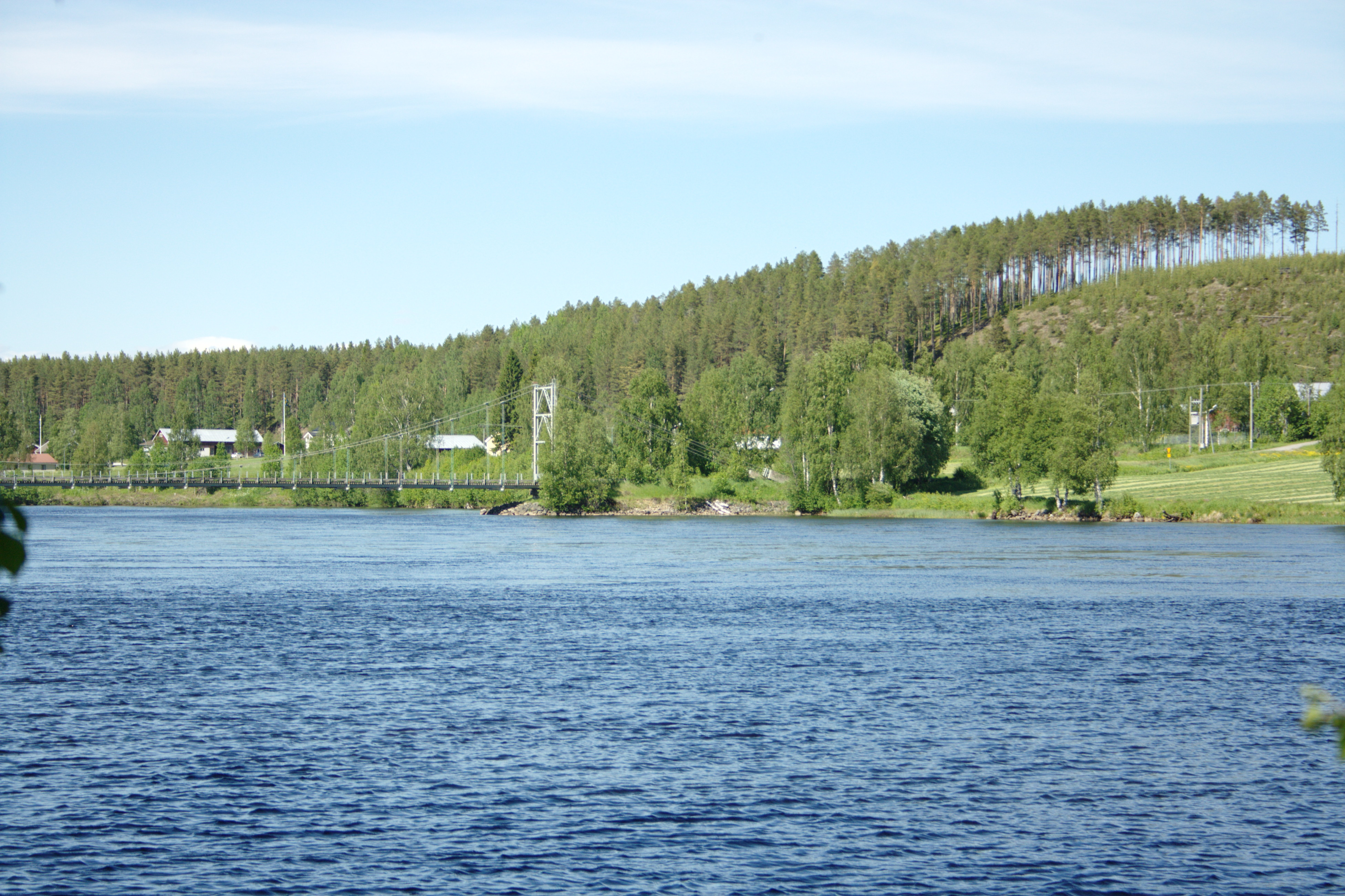 Bridge over Ume river in Tegsnäset